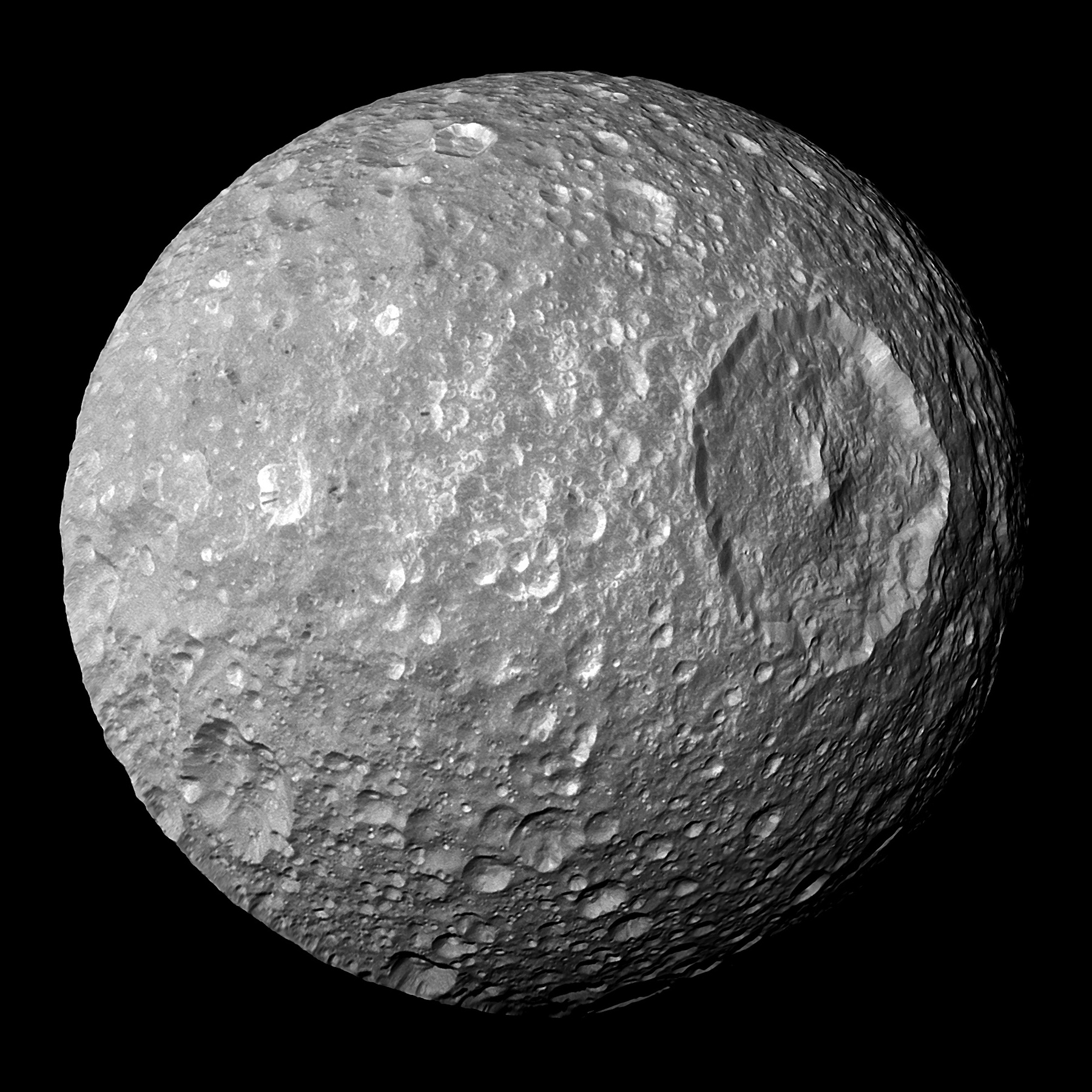 Description from NASA : In this view captured by NASA's Cassini spacecraft on its closest-ever flyby of Saturn's moon Mimas, large Herschel Crater dominates Mimas, making the moon look like the Death Star in the movie "Star Wars." Herschel Crater is 130 kilometers, or 80 miles, wide and covers most of the right of this image. Scientists continue to study this impact basin and its surrounding terrain (see PIA12569 and PIA12571). Cassini came within about 9,500 kilometers (5,900 miles) of Mimas on Feb. 13, 2010. This mosaic was created from six images taken that day in visible light with Cassini's narrow-angle camera on Feb. 13, 2010. The images were re-projected into an orthographic map projection. This view looks toward the area between the region that leads on Mimas' orbit around Saturn and the region of the moon facing away from Saturn. Mimas is 396 kilometers (246 miles) across. This view is centered on terrain at 11 degrees south latitude, 158 degrees west longitude. North is up. This view was obtained at a distance of approximately 50,000 kilometers (31,000 miles) from Mimas and at a sun-Mimas-spacecraft, or phase, angle of 17 degrees. Image scale is 240 meters (790 feet) per pixel. The Cassini-Huygens mission is a cooperative project of NASA, the European Space Agency and the Italian Space Agency. The Jet Propulsion Laboratory, a division of the California Institute of Technology in Pasadena, manages the mission for NASA's Science Mission Directorate in Washington. The Cassini orbiter and its two onboard cameras were designed, developed and assembled at JPL. The imaging team is based at the Space Science Institute, Boulder, Colo. For more information about the Cassini-Huygens mission visit and The Cassini imaging team homepage is at The original NASA image has been cropped.